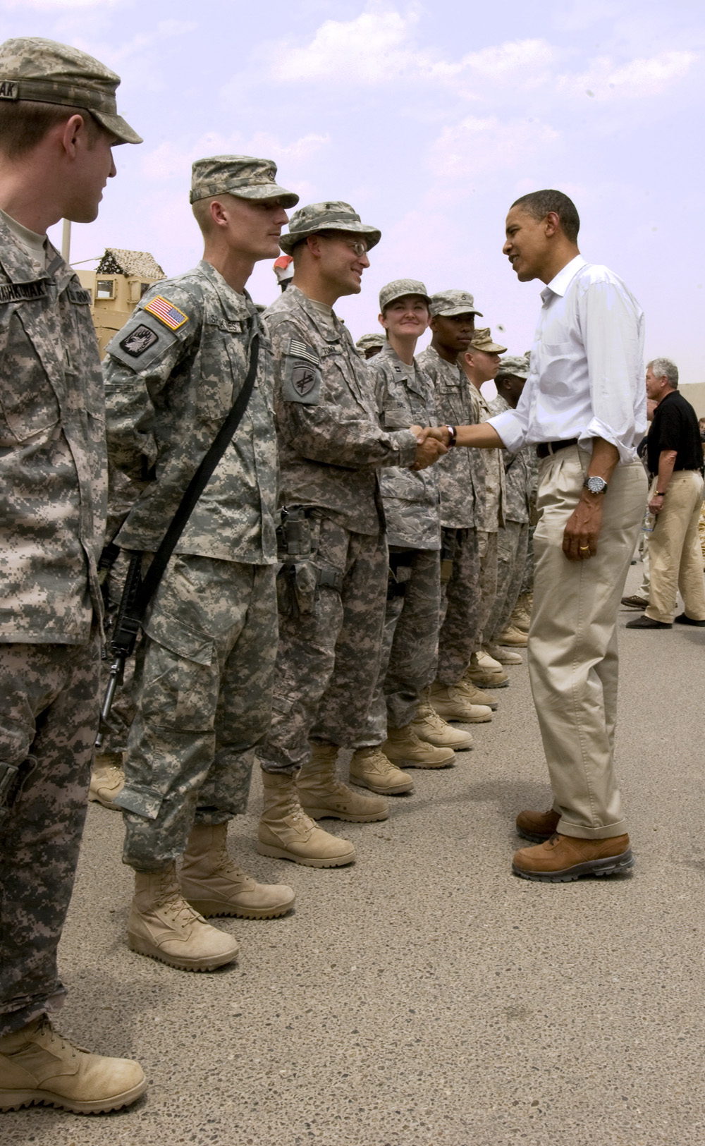 Sen. Barack Obama, D-Ill, shakes hands with a U.S. Soldier outside Multi-National Division South East Headquarters in Basra, Iraq July 21, 2008. Sen. Obama, Sen. Chuck Hagel, R-Neb and Sen. Jack Reed, D-R.I. visited Basra as part of a Middle East tour. The Senators visited Afghanistan prior to the stop in Iraq and will visit Israel and Jordan before heading on to Europe.